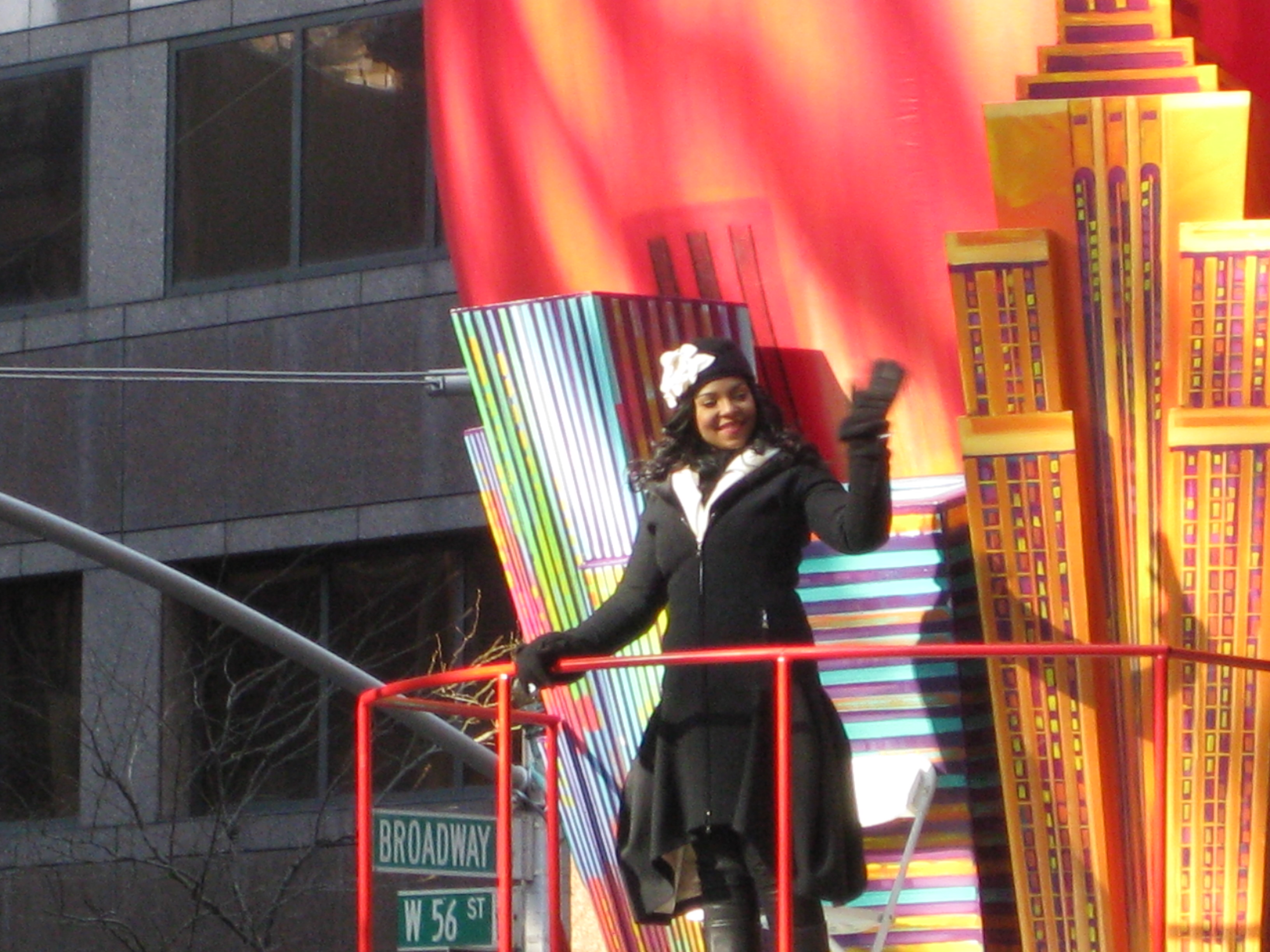 The singer Ashanti in San Juan Hill.